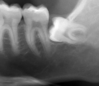 Horizontal impaction of wisdom tooth no symptoms